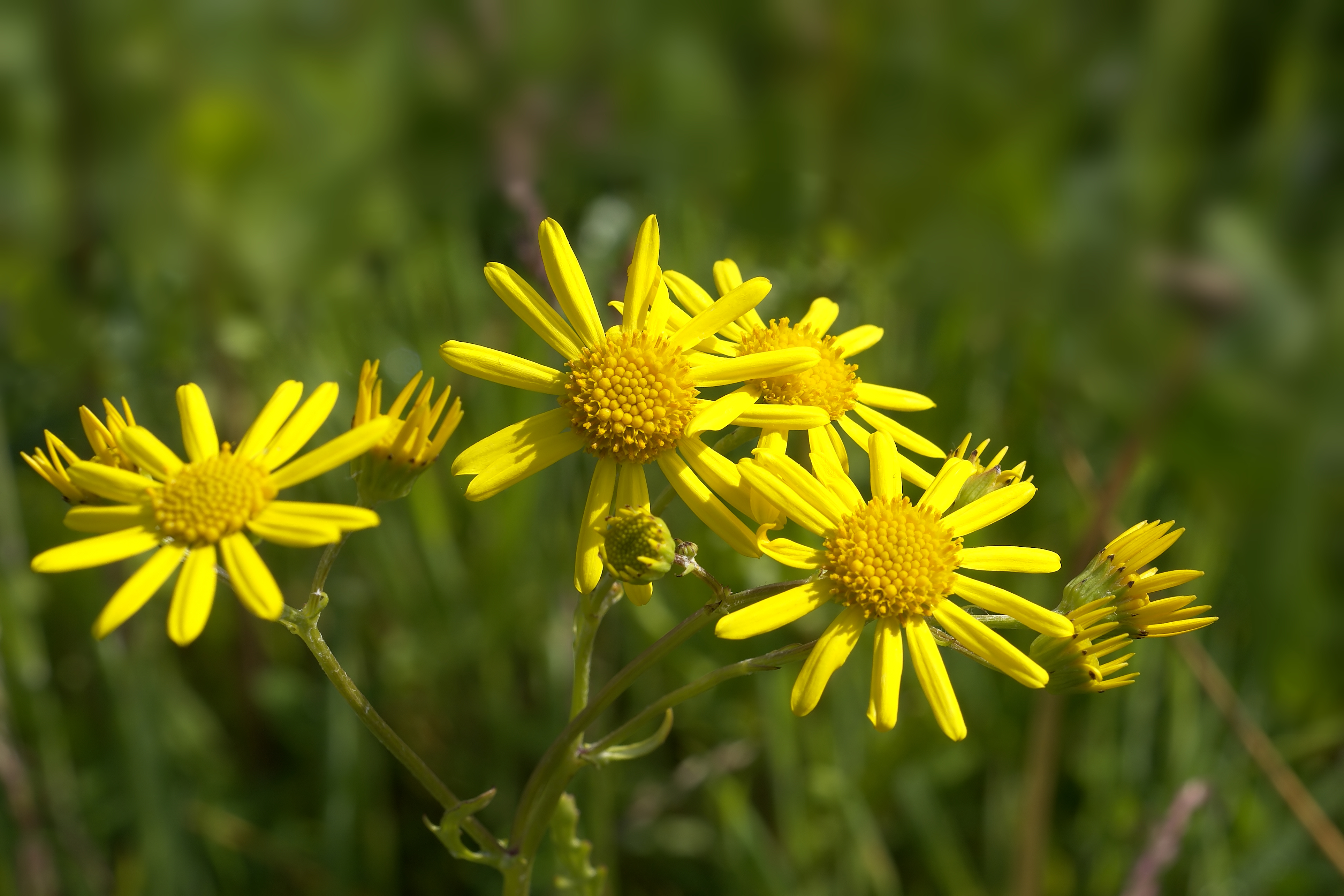 Flowers at Leiemeersen, Oostkamp, Belgium